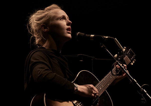 Laura Marling Queens Hall Edinburgh 04-11-2009 more at myspace gallery